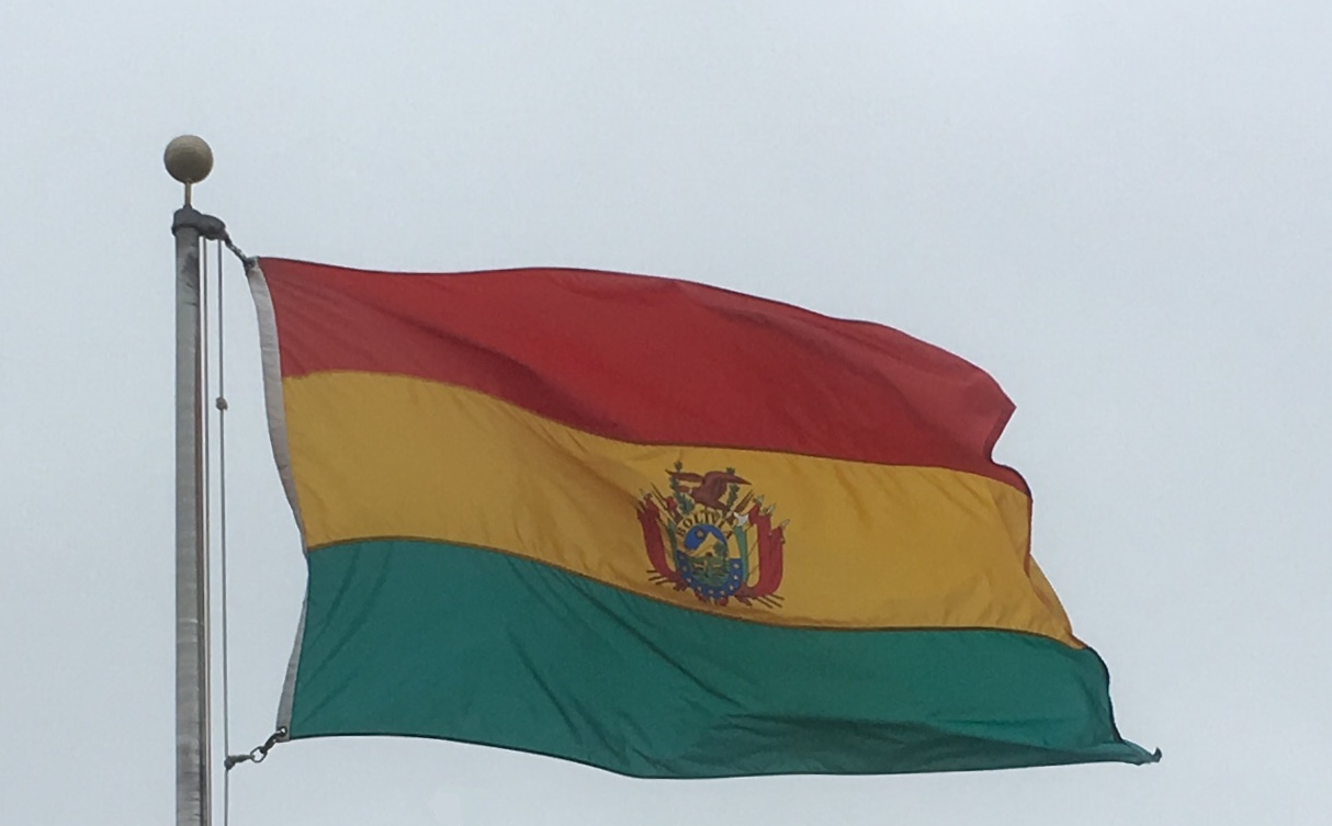 Flag of Bolivia flying on flagpole at International Linguistic Center in Dallas, Texas